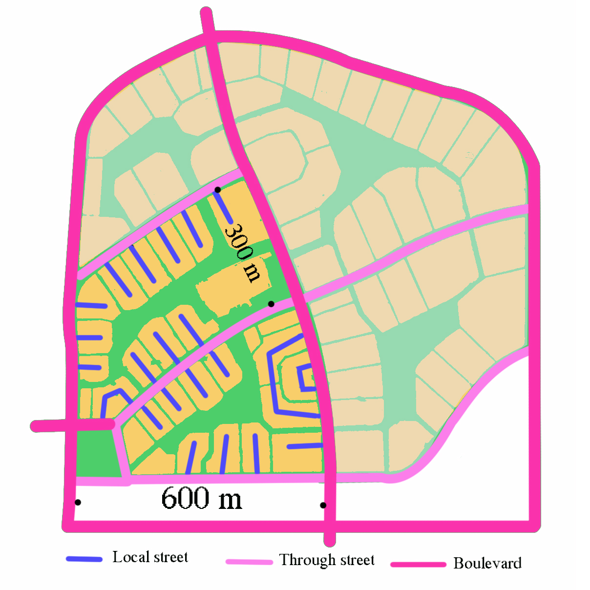 Diagram of the Radburn street pattern showing the cellular structure of the network and the nested road hierarchy